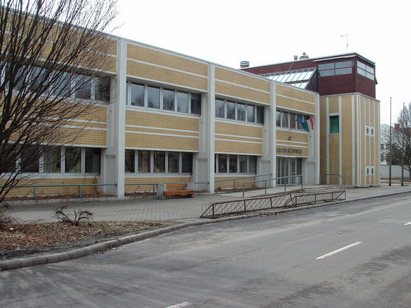 The central library in Békéscsaba